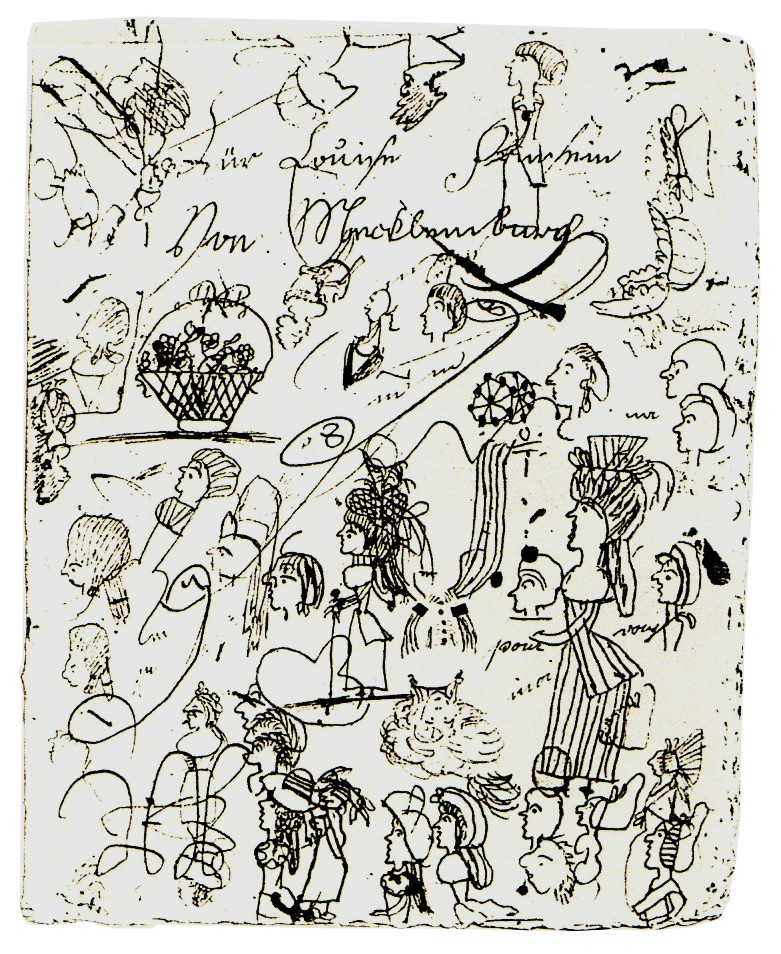 Scribbles, made by Luise von Mecklenburg-Strelitz, Queen of Prussia.